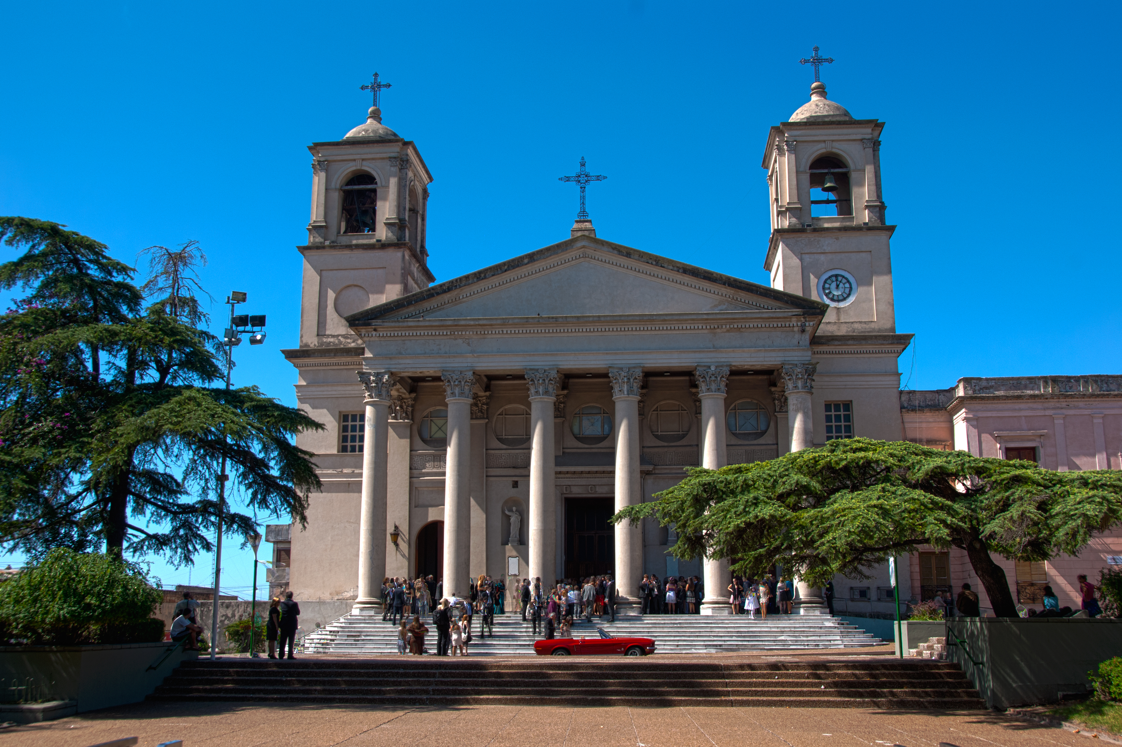 Basilica of Paysandu, Uruguay